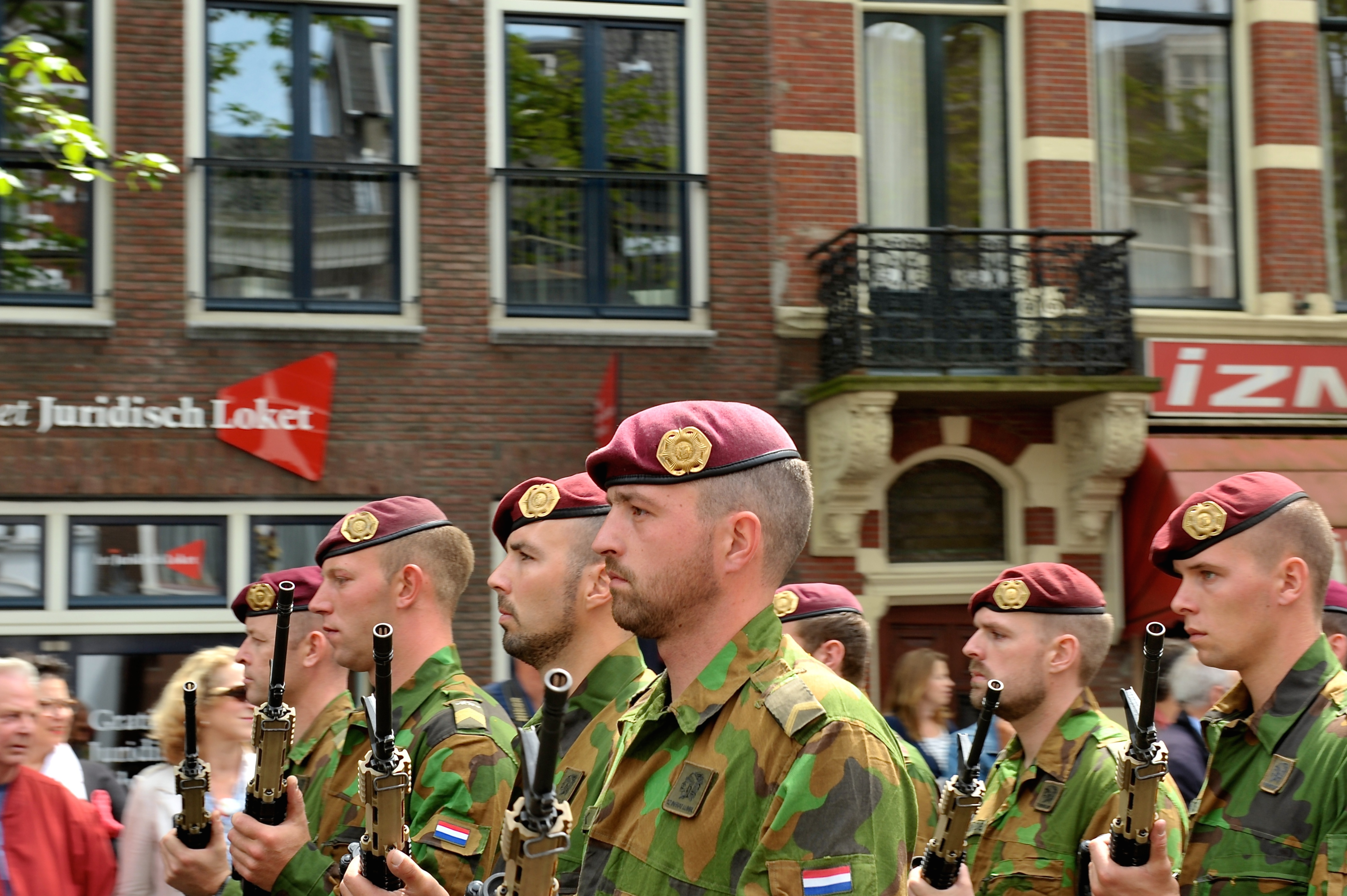 Regiment van Heutsz, AirAssault (Lucht Mobiele Brigade).